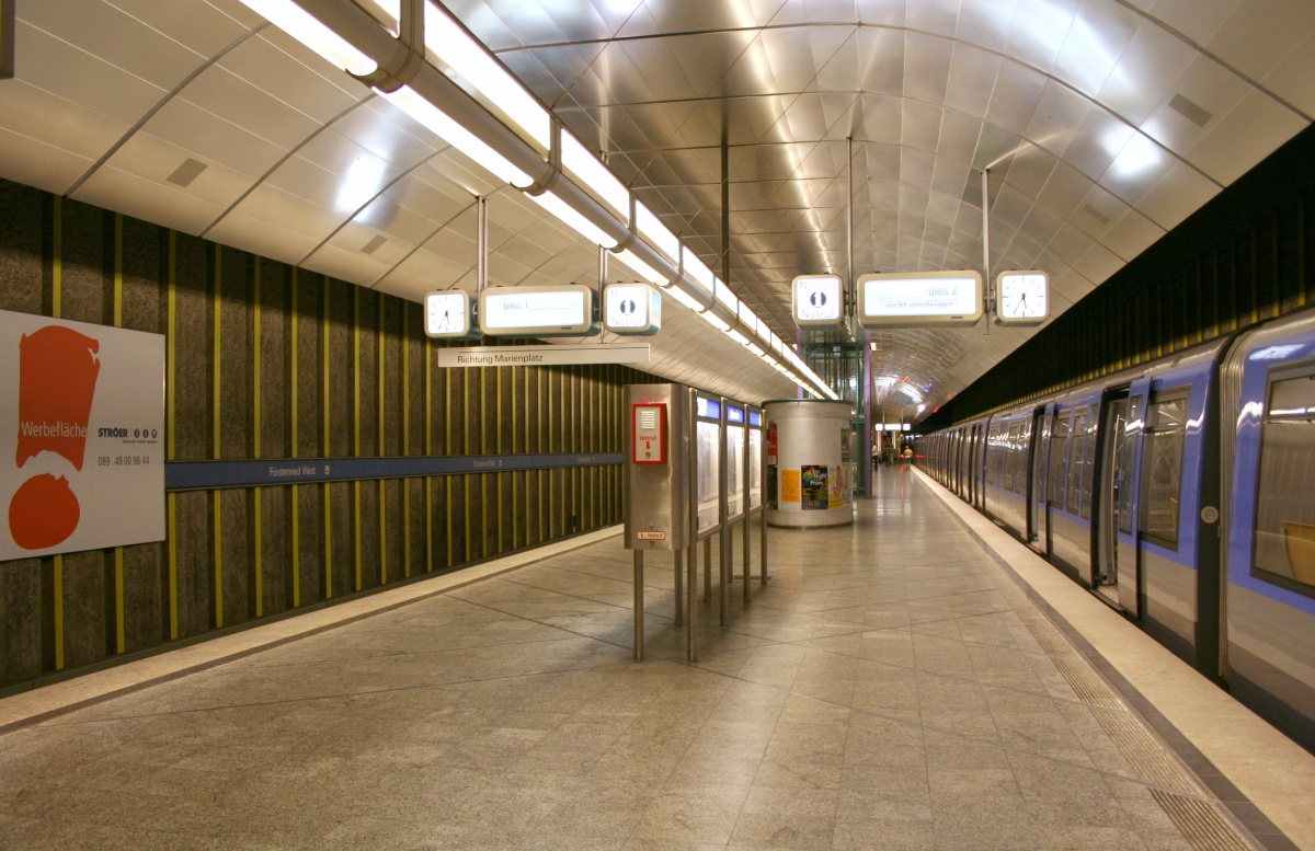 Munich subway station Fürstenried West